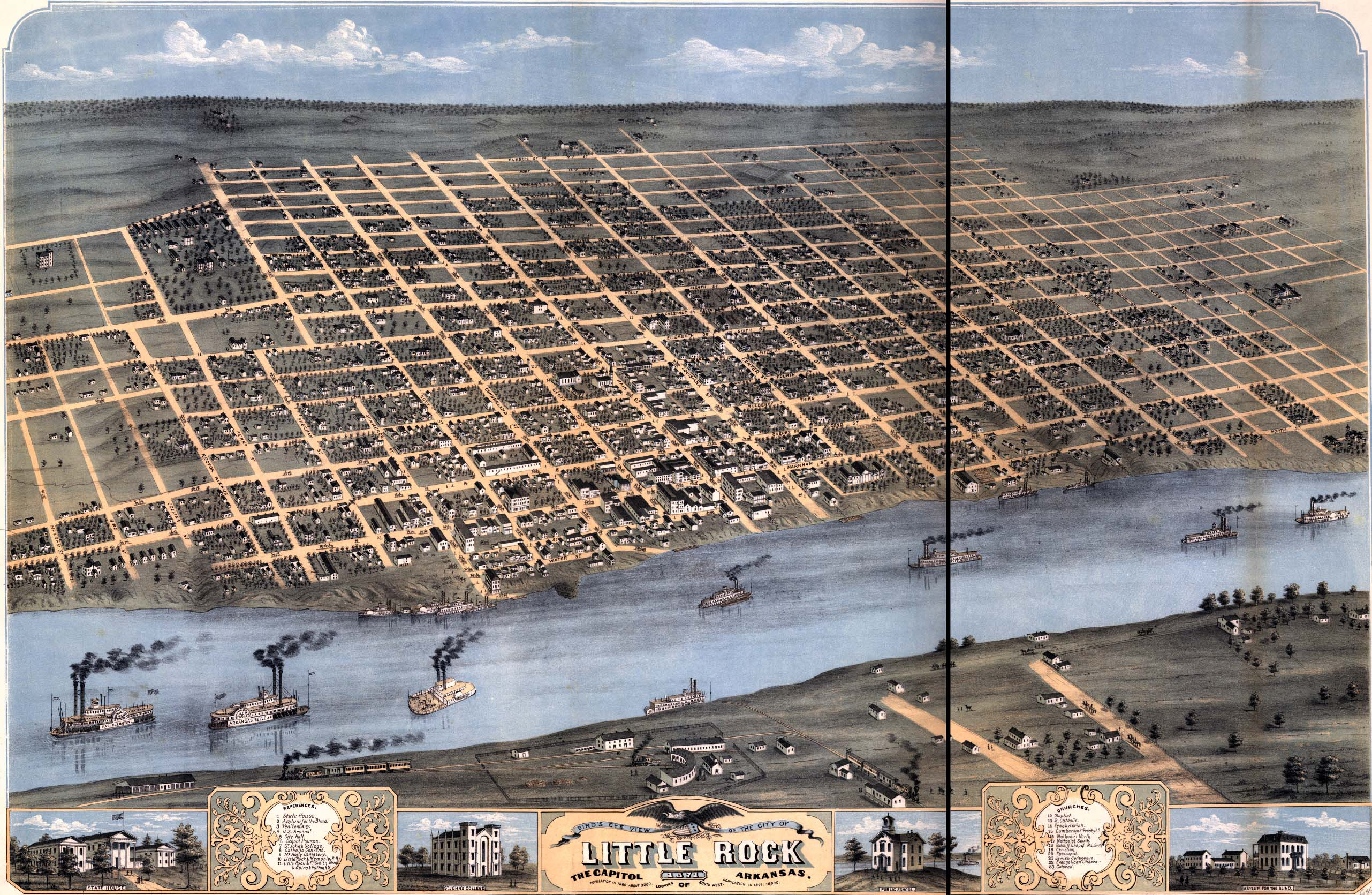 1871 bird's eye illustration of Little Rock, Arkansas, USA.